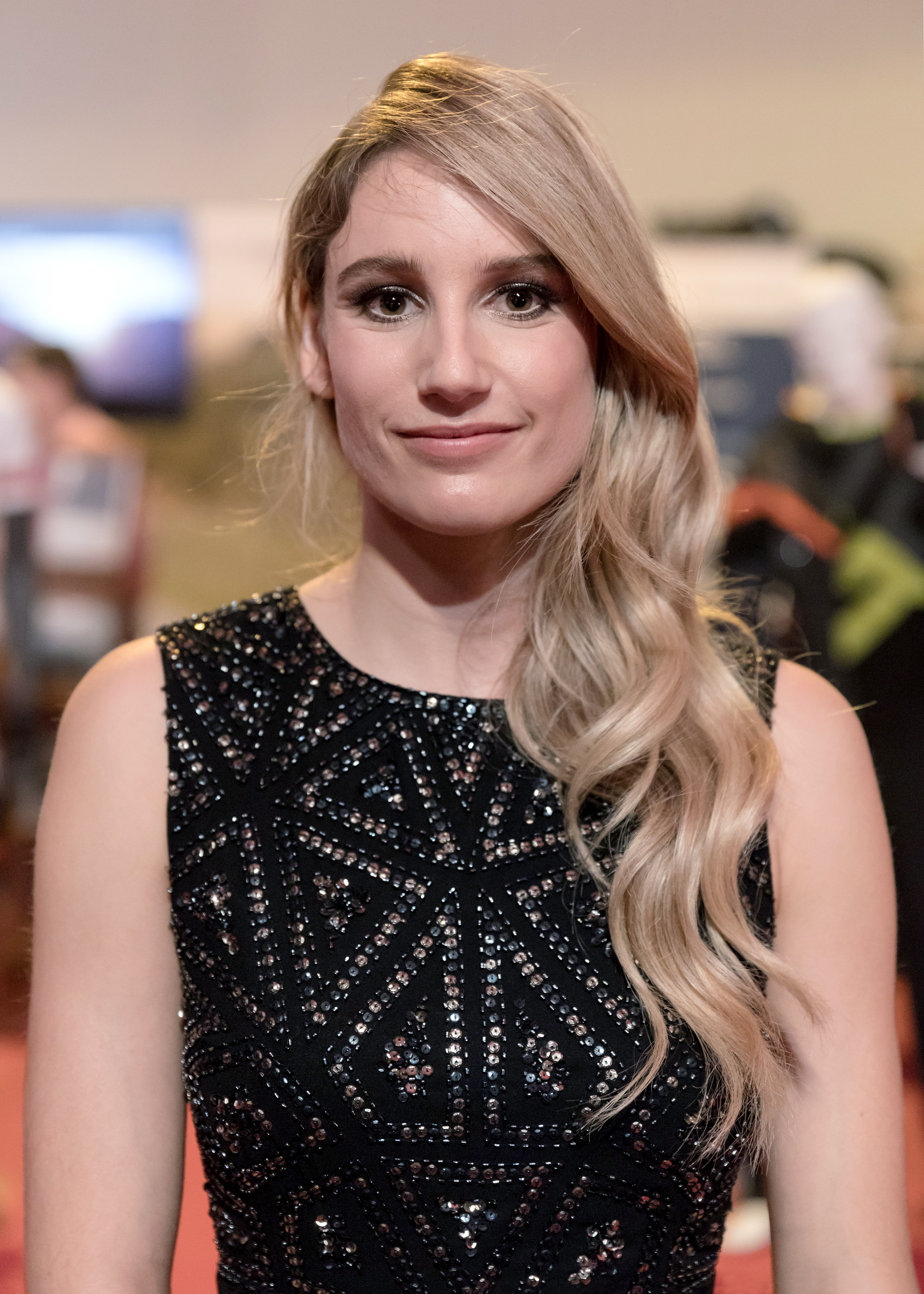 Anna Gasser at the gala for the Austrian Sports Personalities of the Year 2017, at Marx Halle (Sankt Marx, Vienna, Austria).